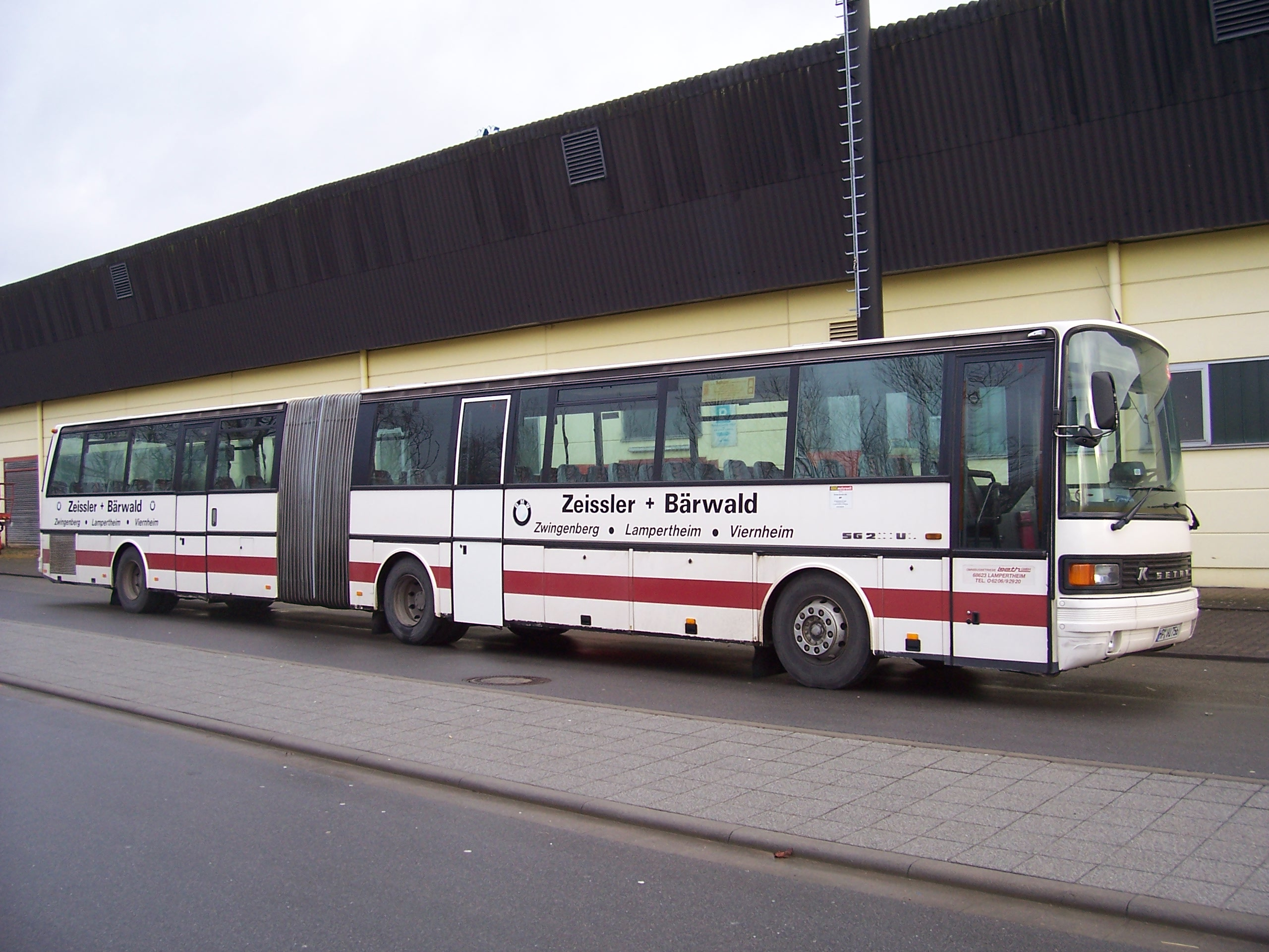 A Setra SG 221 UL articulated bus in Viernheim, Germany My own photo